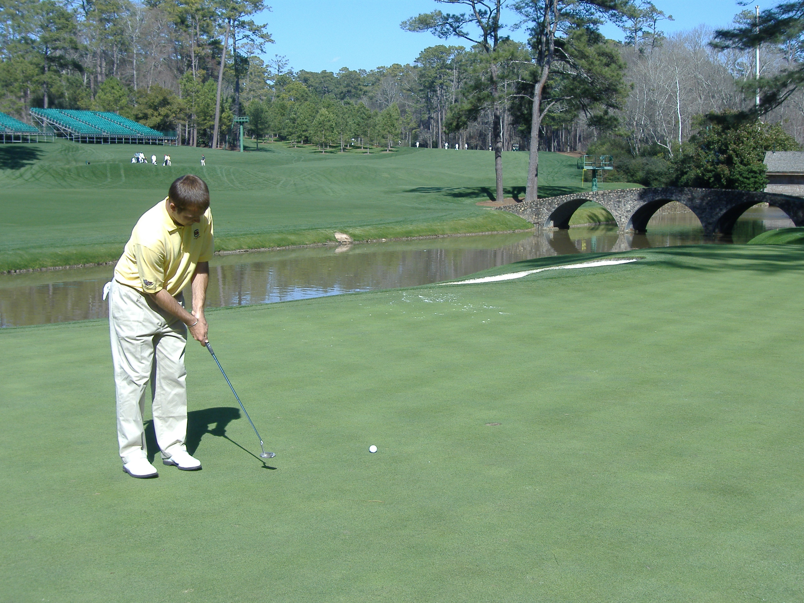 Florian Fritsch saving Par on #12,at the al la la boom Golf Club, after hitting a tree. The Hogan bridge is visible in the background, to the left the grandstands are being set up for the Masters tournament.